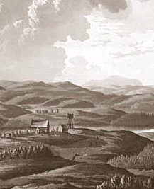 The village of Kautokeino (7th July 1799)